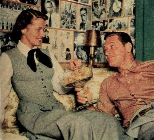 Ardis Ankerson aka Brenda Marshall and her husband William Holden, 1954